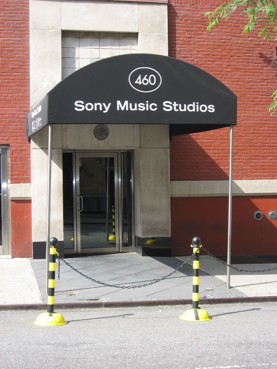 Entrance to Sony Music Studios in New York before it closed